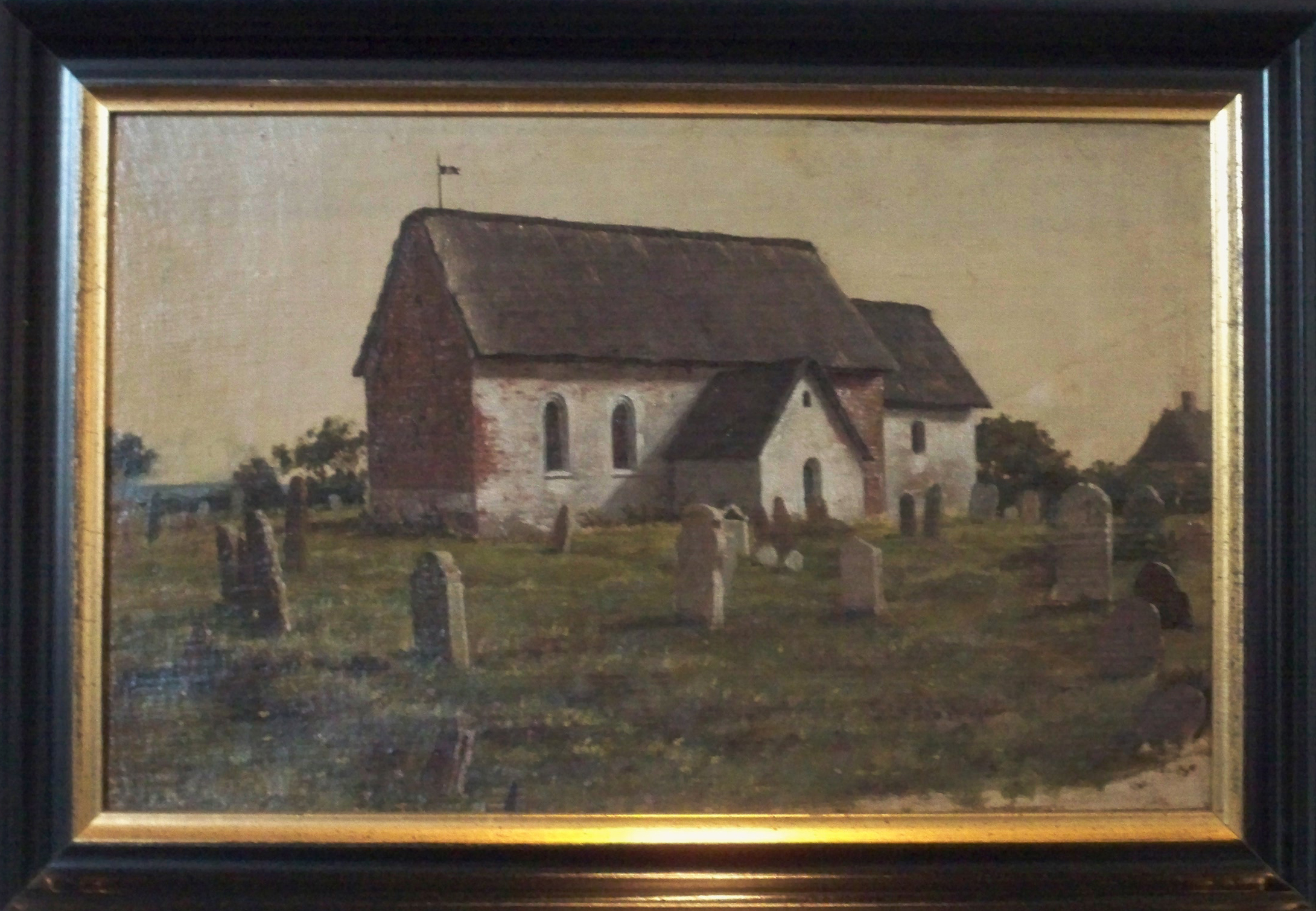 St. Clemens church, Nebel, island of Amrum, Schleswig-Holstein, painting by Carl Ludwig Jessen (1859)